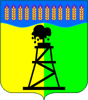 Neftekumsky district (Stavropol territory, Russia), coat of arms